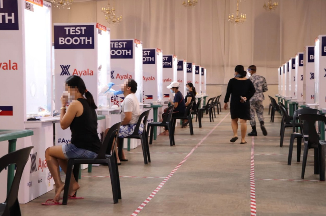 The Palacio de Maynila swabbing center started its operations on Thursday, May 7, testing 250 overseas Filipino workers (OFWs) undergoing mandatory quarantine. “Our immediate goal in the next few weeks is to swab 25,000 seafarers and land-based OFWs, as well as overseas Filipinos,” said National Action Plan Against COVID-19 Deputy Chief Implementer Sec. Vince Dizon. The Palacio de Maynila has 65 testing booths, and is manned by medical staff from the Philippine Coast Guard (PCG) and the Bureau of Fire Protection (BFP).